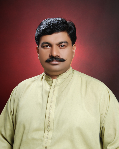 Raja Sohail Khalid s/o Raja Khalid Mukhtar